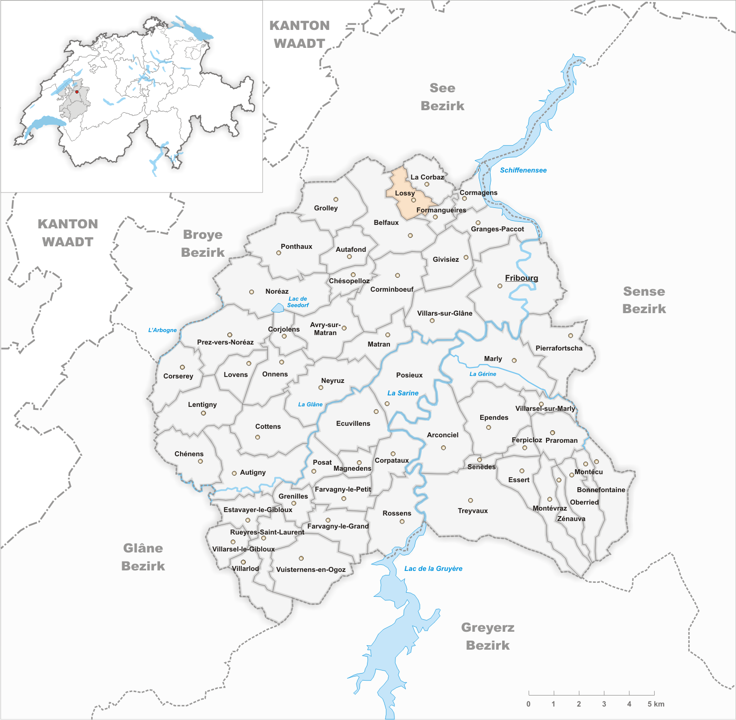 Municipality Lossy Artist: Tschubby